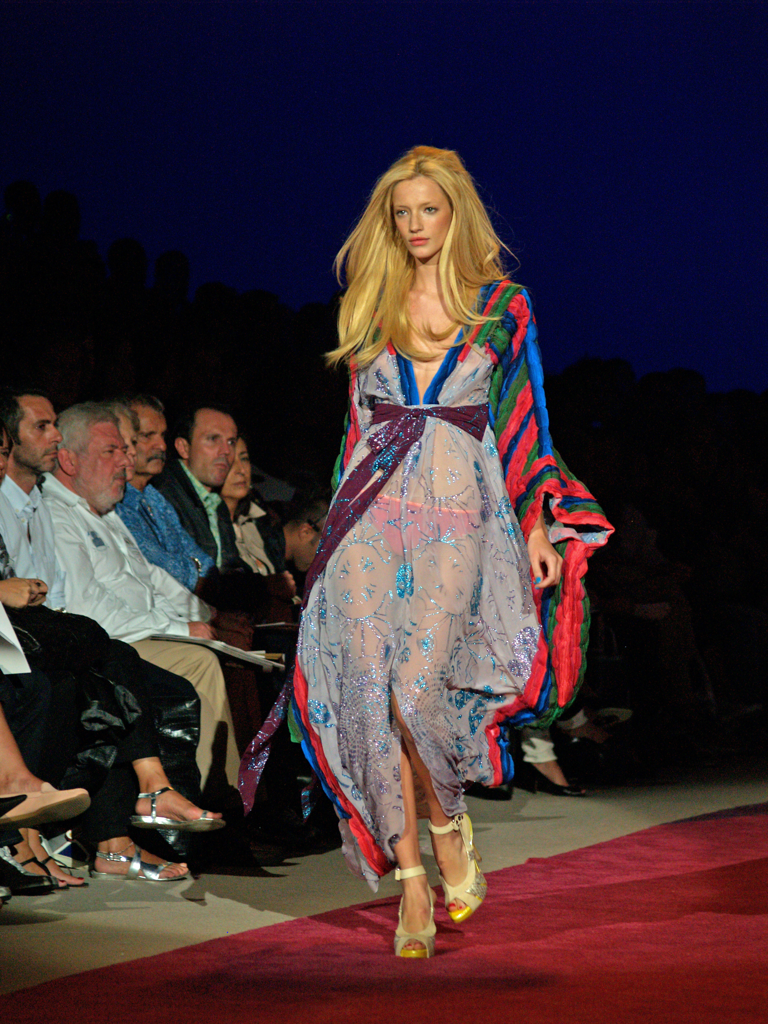 Milagros Schmoll at the Custo Barcelona 2009 Spring Collection. The photographer dedicates this image to retired Wikipedia editor Phaedriel. Her legendary kind and beautiful nature made editing Wikipedia for countless people and remains remembered and missed.